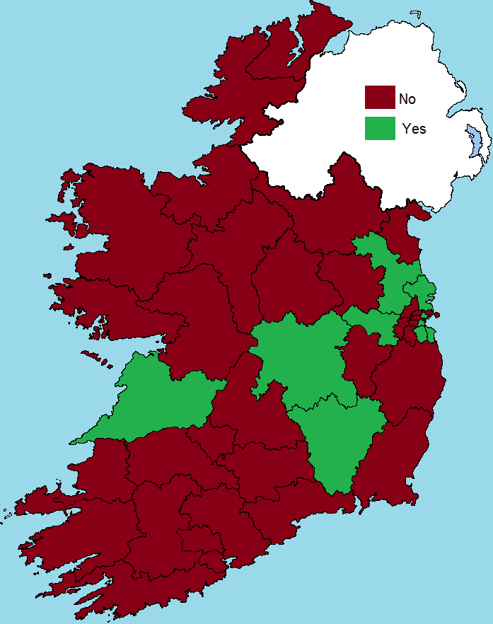 Results of the June 2008 referendum on the Twenty-eighth Amendment of the Constitution of Ireland. As the referendum progressed, it became apparent that there were some minor problems with the map and one major one (the boundary between Kildares North and South). The Electoral (Amendment) Act was checked and as a result the following corrections were made: The borders in the intersection of Cork North-West, Cork North-Central, Cork South-Central and Cork South-West have been corrected The border between Kerry North and Kerry South have been corrected The border between Limerick West and Limerick East has been corrected The border between Donegal South-West and Donegal North-East has been corrected The map is now, to the best of my belief, accurate as per the Irish election of May 2007. Because of the dearth of GFDL sources, many of the corrections were done by eye using textual sources, rather than transcribed/traced directly from maps. Because of this and the limitations of the Microsoft Paint software, it is acknowledged that the map is not precise to the level of +/- one pixel. Any Wikipedian/Commons user who may be able to do better is strongly urged by myself to create a better version. Readers wondering where the mouth of the Shannon is may wish to note that the northern boundary of Kerry North constituency extends half-way across the Shannon estuary, where it meets the southern boundary of Clare constituency. A similar situation pertains with Clare and Limerick West. For further details, see Dáil General Election May 2007 - Results and Transfer of Votes ELECTORAL (AMENDMENT) ACT 2005 For proof of the corrections, see [1], [2], [3], [4], [5], [6], [7], [8], [9], [10], [11], [12], [13], [14], [15], [16], [17], and [18]